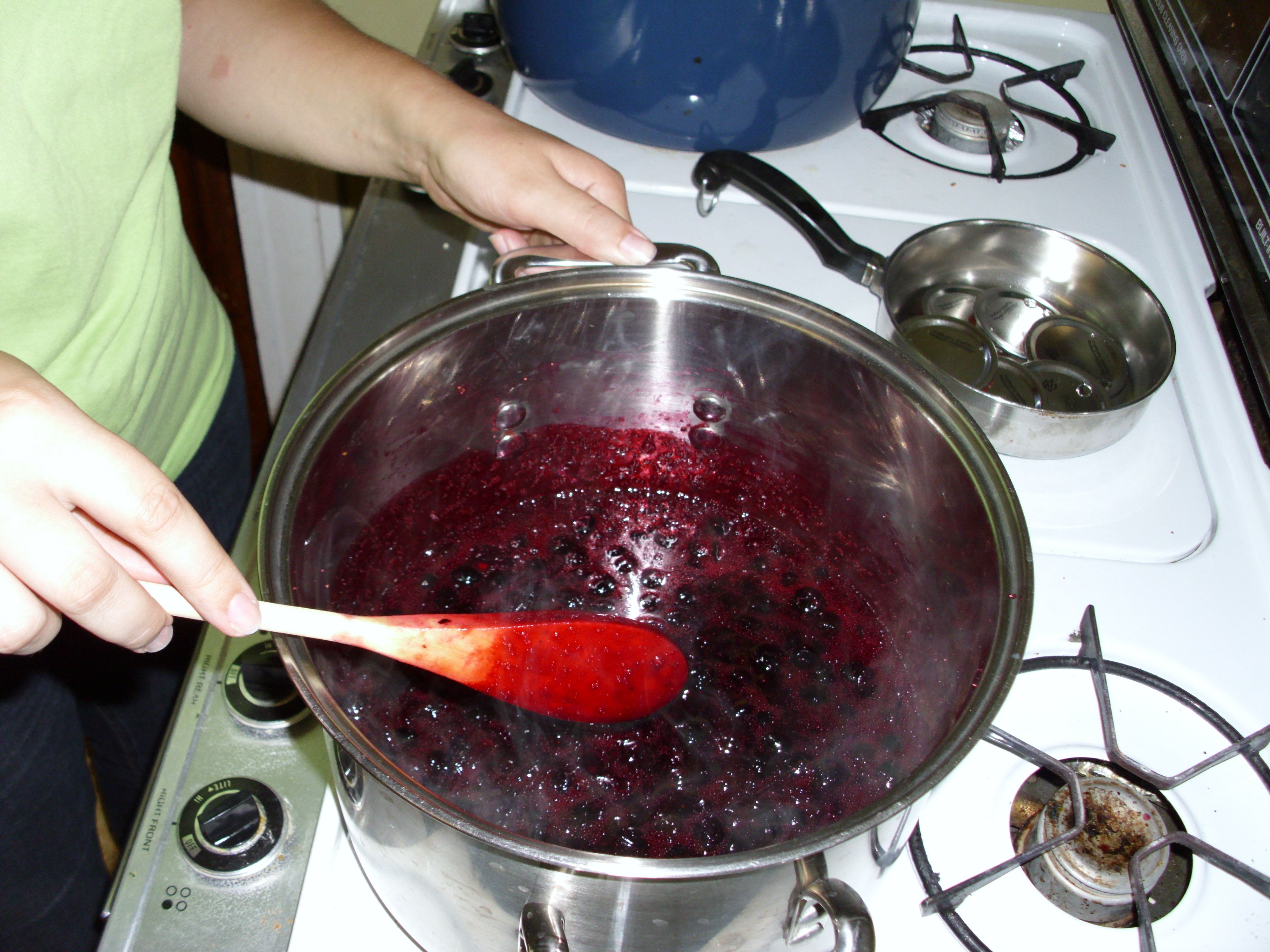 Making blueberry jam. A woman stirs blueberries in a pot after sugar and pectin have been added. They're really starting to cook now.